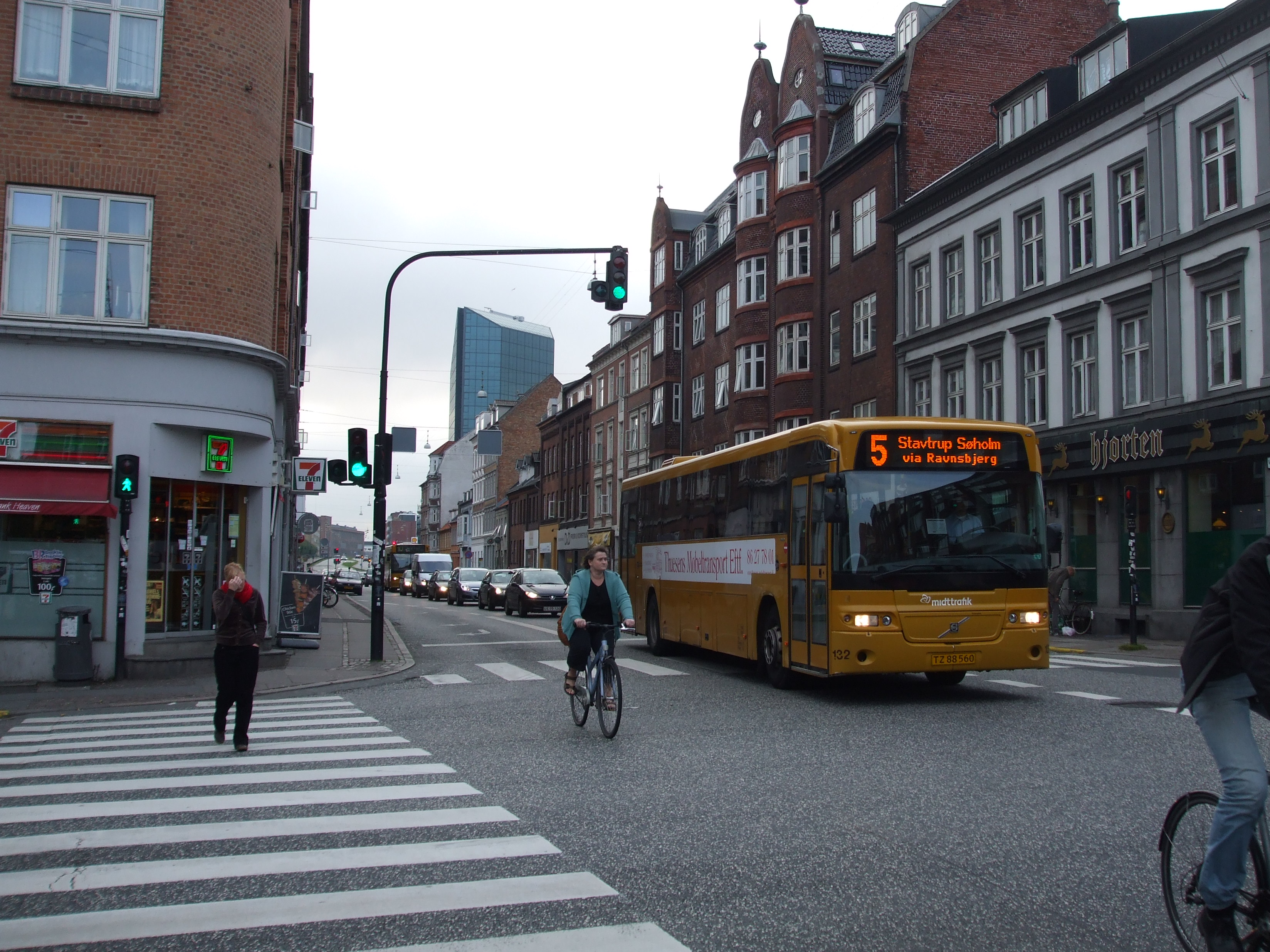 Vesterbrogade in Å…rhus, Denmark